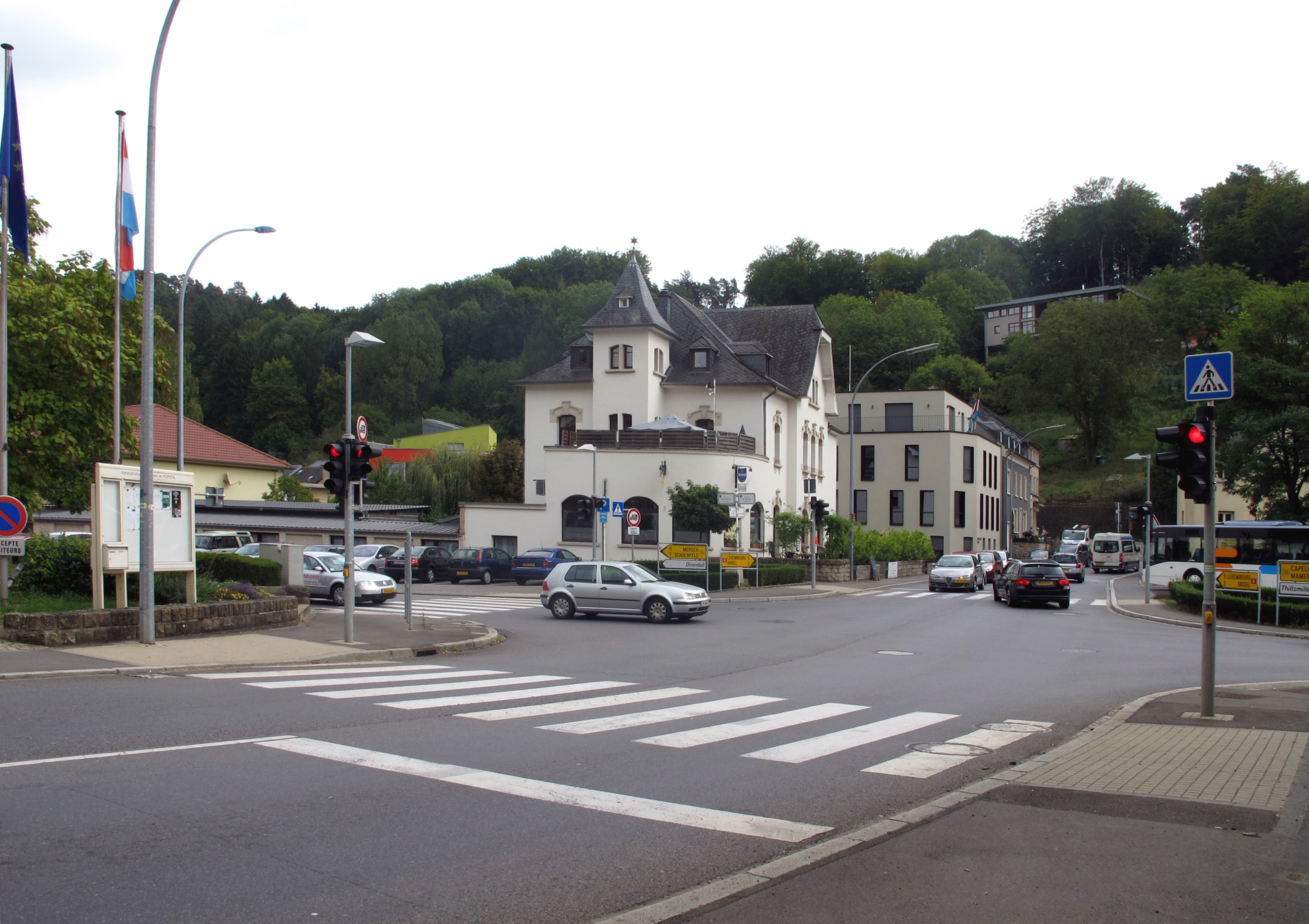 View from the rue de Saeul (N12) on the main crossroads in Kopstal, Luxembourg